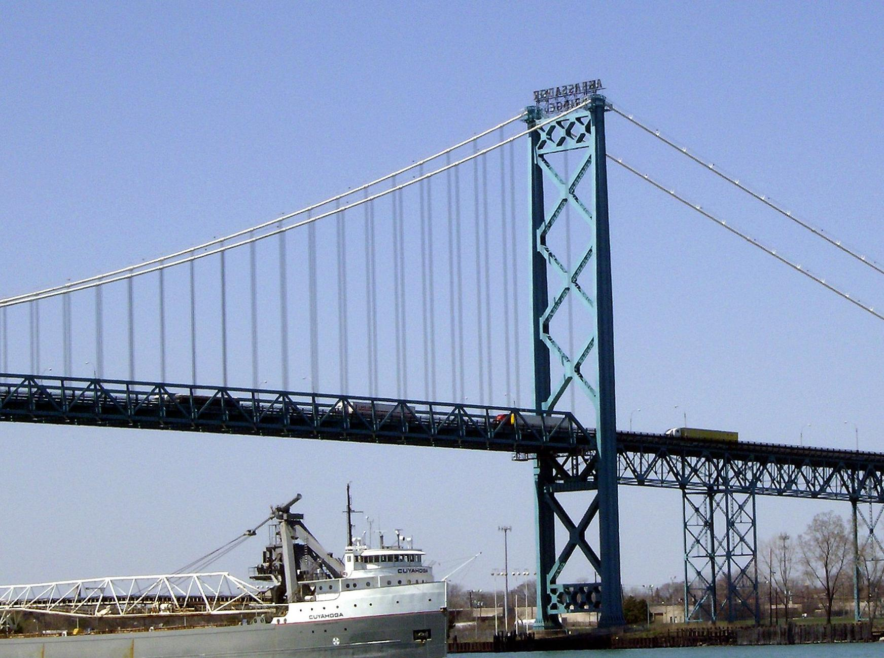 made by Mikerussel